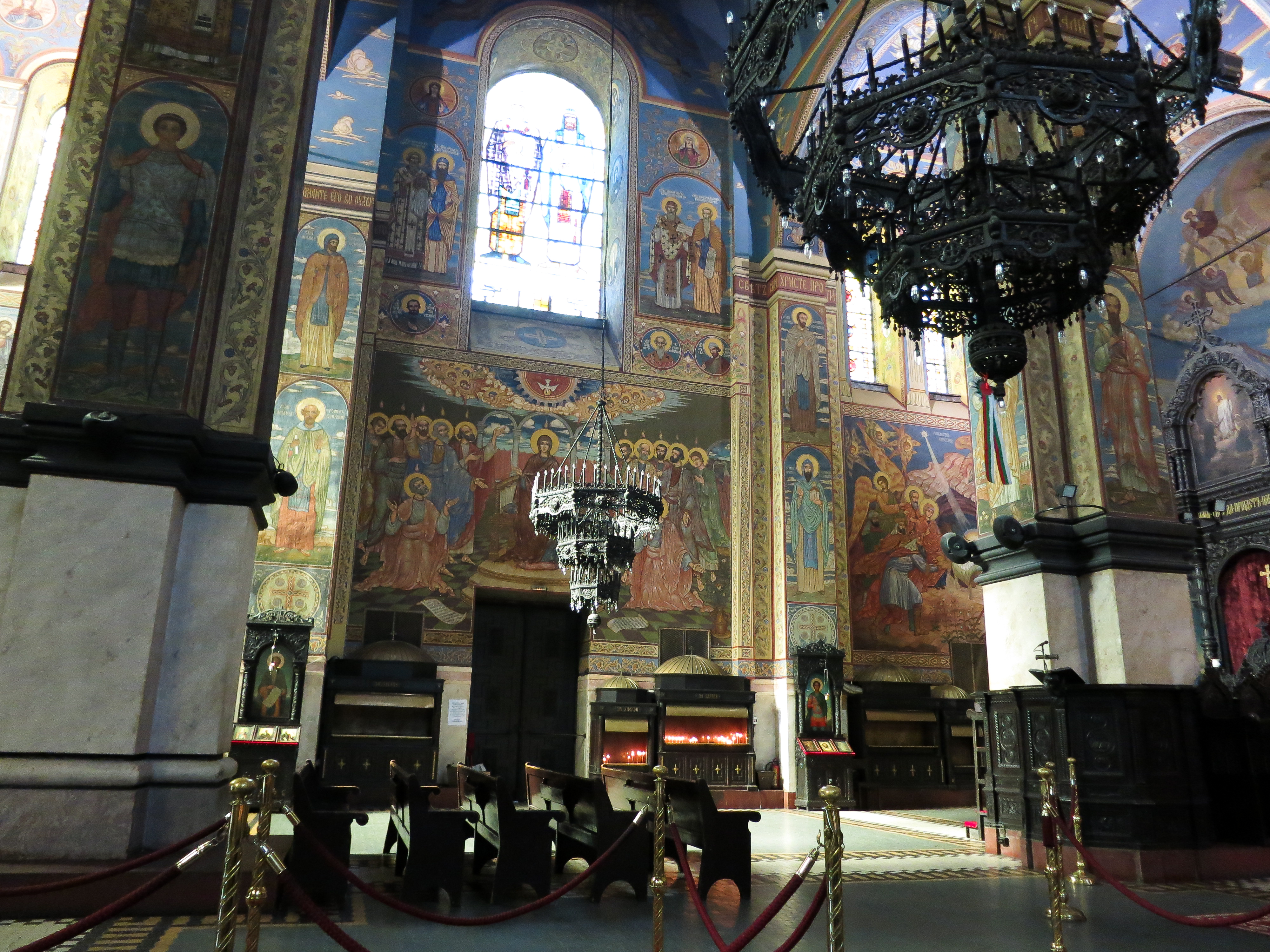 The cathedral of Varna, Bulgaria (inside)